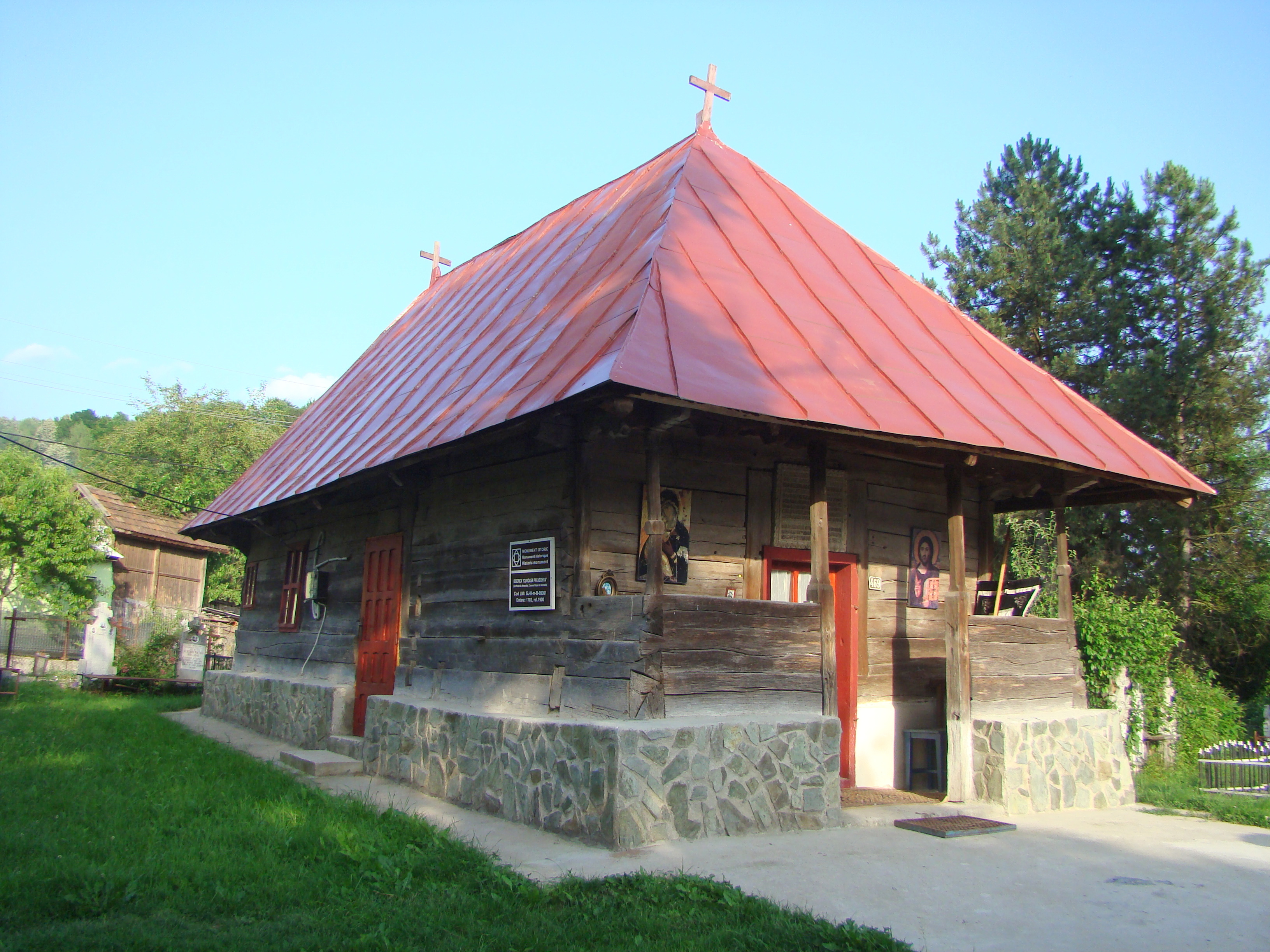 Wooden church in Roșia de Amaradia, Gorj county, Romania